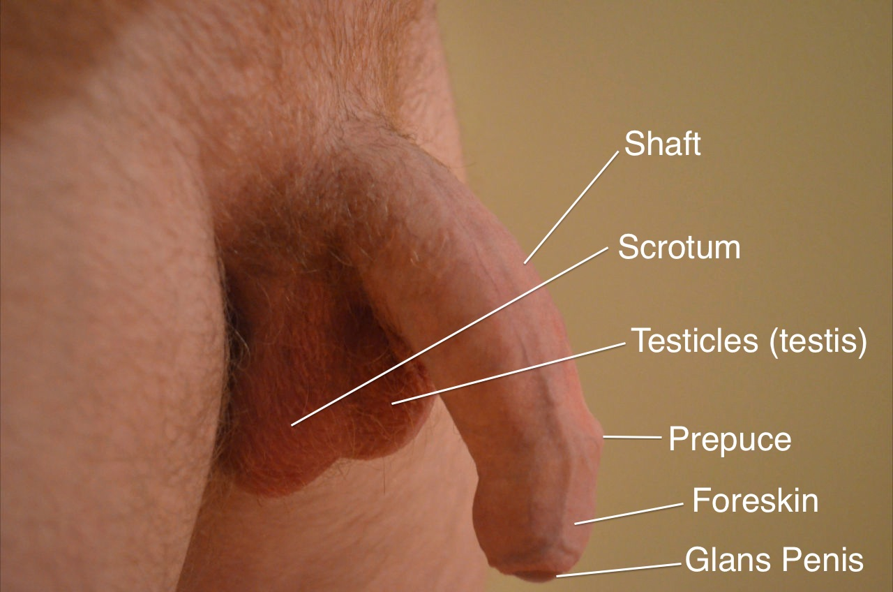 A labeled uncircumcised human penis